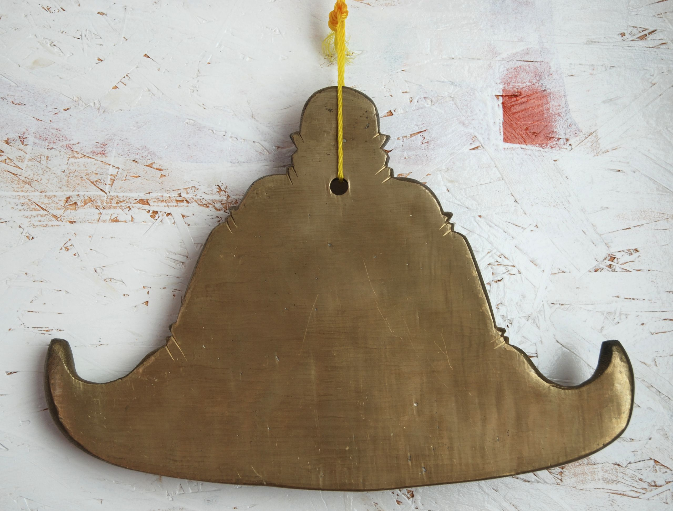 Kyizi, kyi-zi, Burmese bell, Shwedagon Pagoda, Yangon 2002